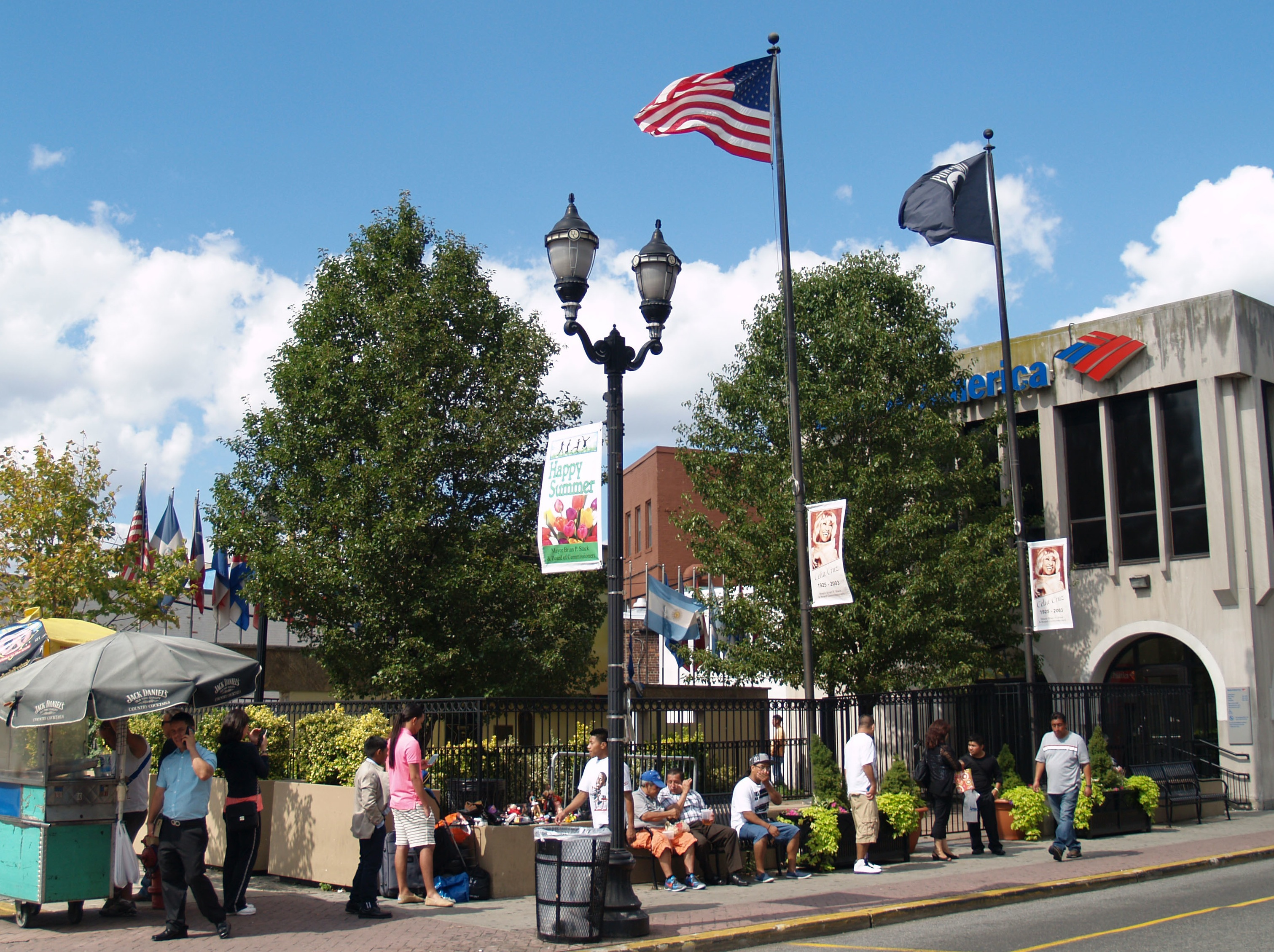 Celia Cruz Park at 31st Street and Bergenline Avenue in Union City, New Jersey, as seen on September 7, 2014. This photo was created by Luigi Novi. It is not in the public domain, and use of this file outside of the licensing terms is a copyright violation.